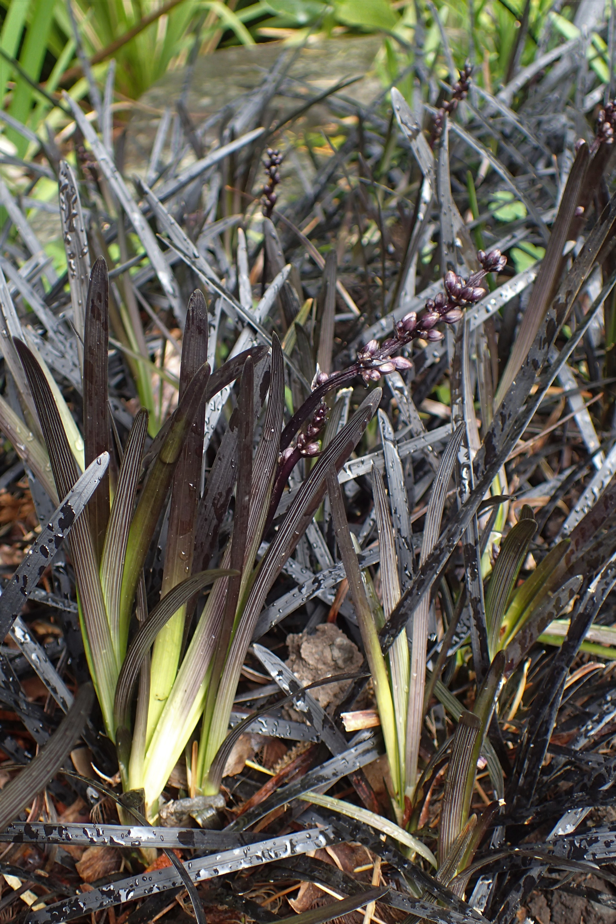 Ophiopogon planiscapus 'Nigrescens' in Wellington Botanical Garden